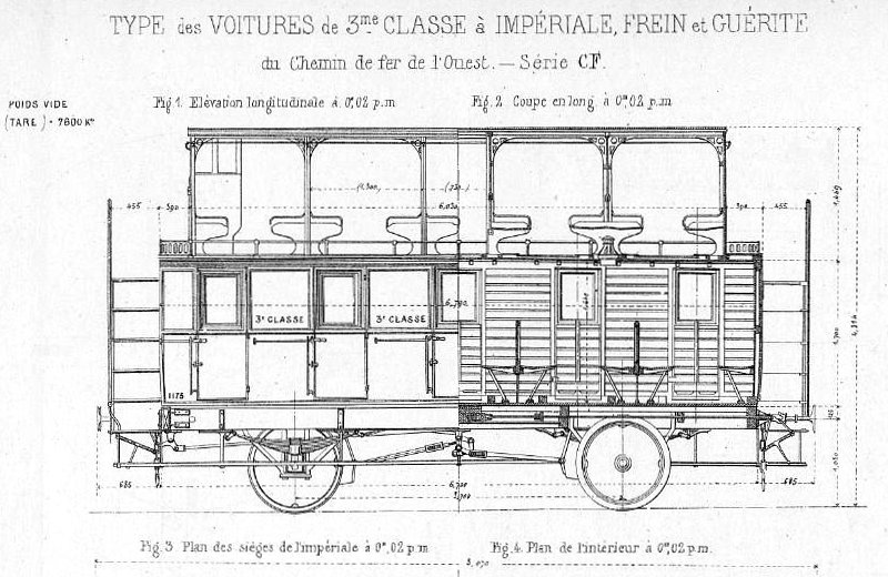 3rd class double-deck passenger car of the Compagnie des chemins de fer de l'Ouest (France). 1869.